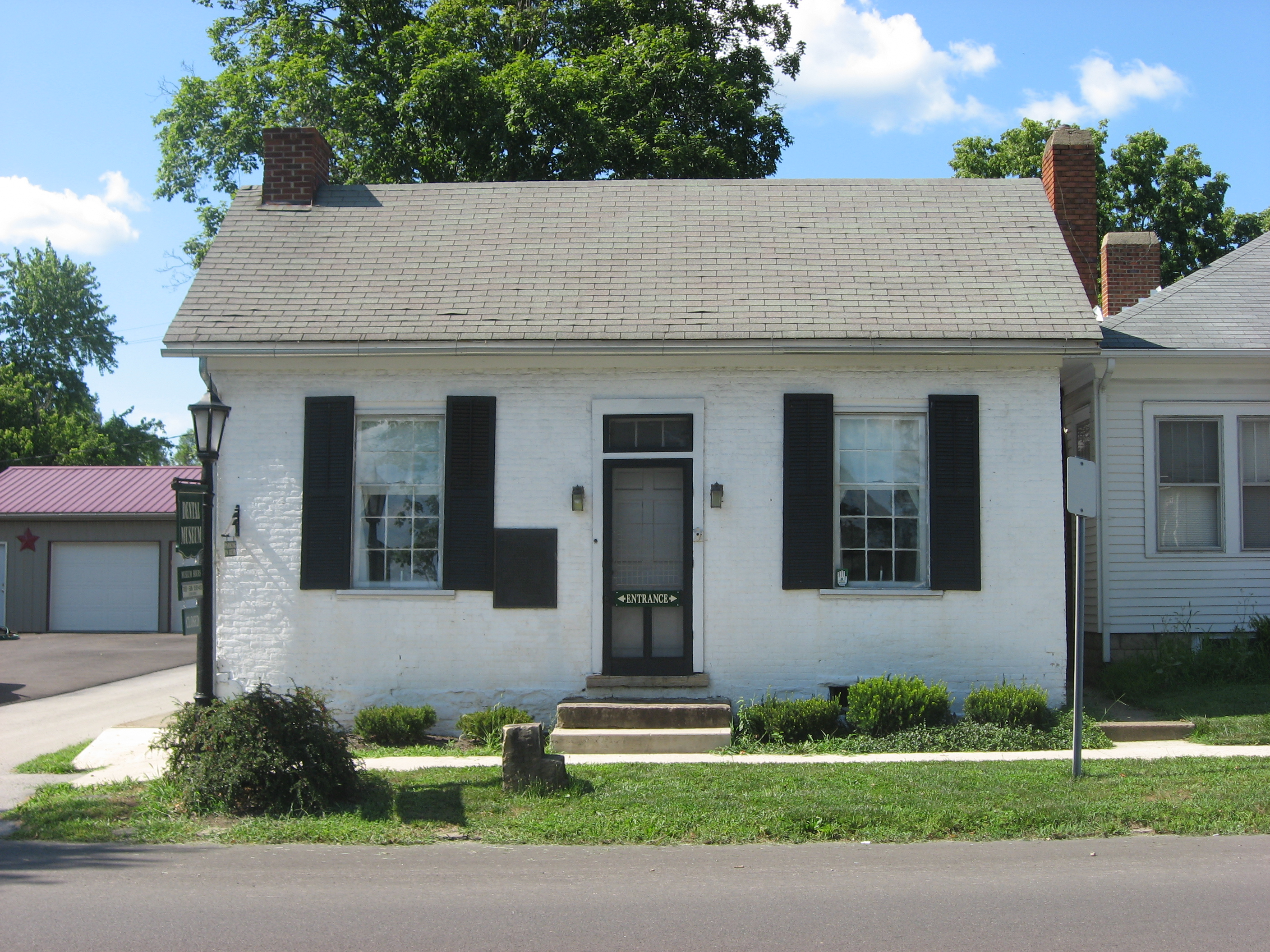 Front of the Dr. John Harris Dental School, located at 208 W. Main Street (U.S. Route 50/State Route 41) on the western side of Bainbridge, Ohio, United States. Built in 1815, it was the location of the first dental school in the United States, which opened in 1825 and operated for only a short time. Today, it is a museum, and it is listed on the National Register of Historic Places. Museum website.